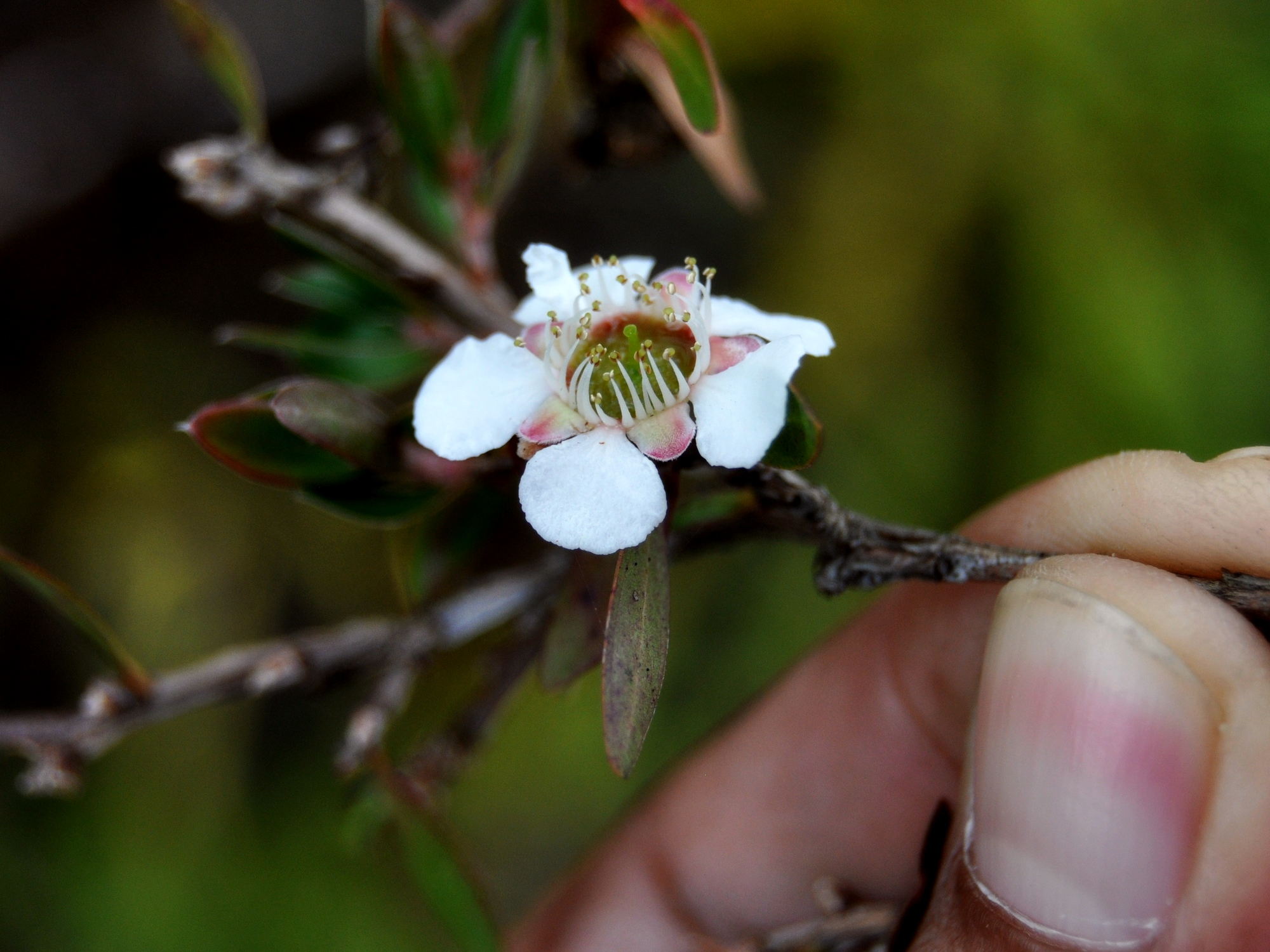 Leptospermum javanicum (syn. L. amboinense) flower close-up. North Sumatra, Indonesia. Alt. 1455 m asl.